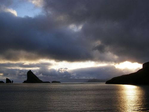 Tindholmur and Mykines